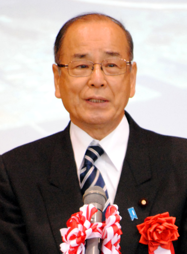 Katsumasa Suzuki, Secretary General of the People's Life Party, participated in the Opening Ceremony of the Gamagōri Bypass in Gamagōri City, Aichi Prefecture on March 23, 2014.